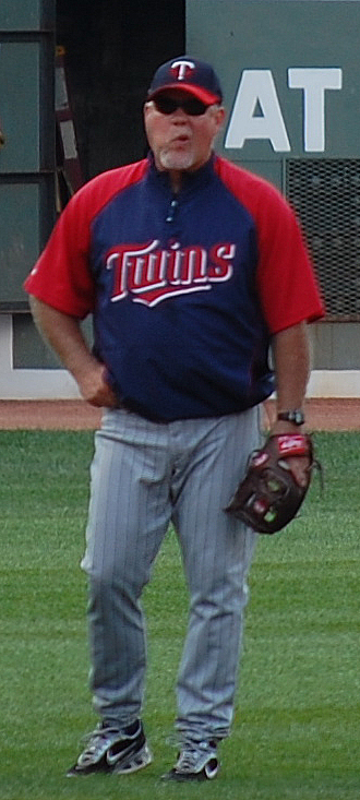 Description Ron Gardenhire in the outfield at Fenway DateJuly 7, 2008Source GoldmanPermission (Reusing this file) CC-BY 00:50, 8 August 2008 . . Killervogel5 . . 330×733 (235 KB) Ron Gardenhire in the outfield at Fenway